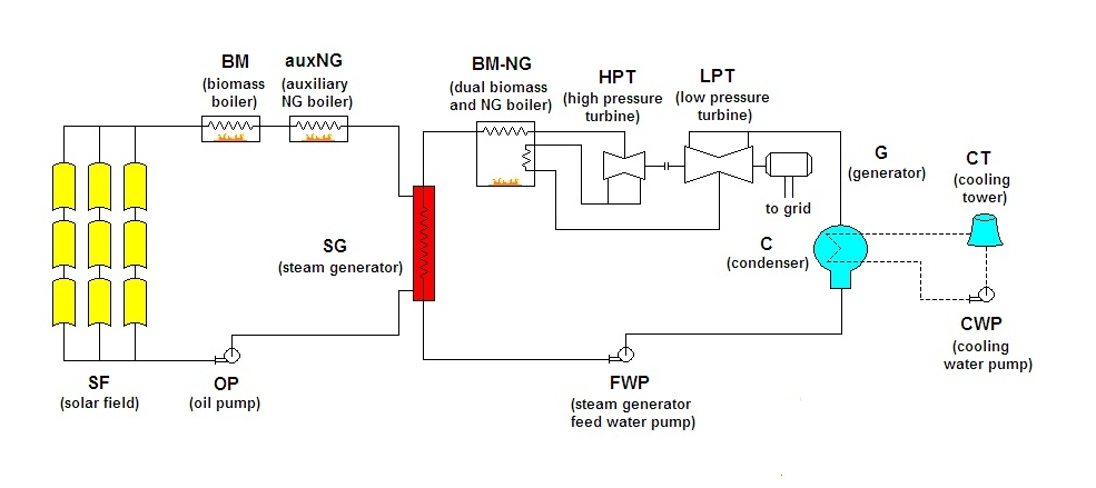 Schematic of a hybrid thermo solar and biomass power plant